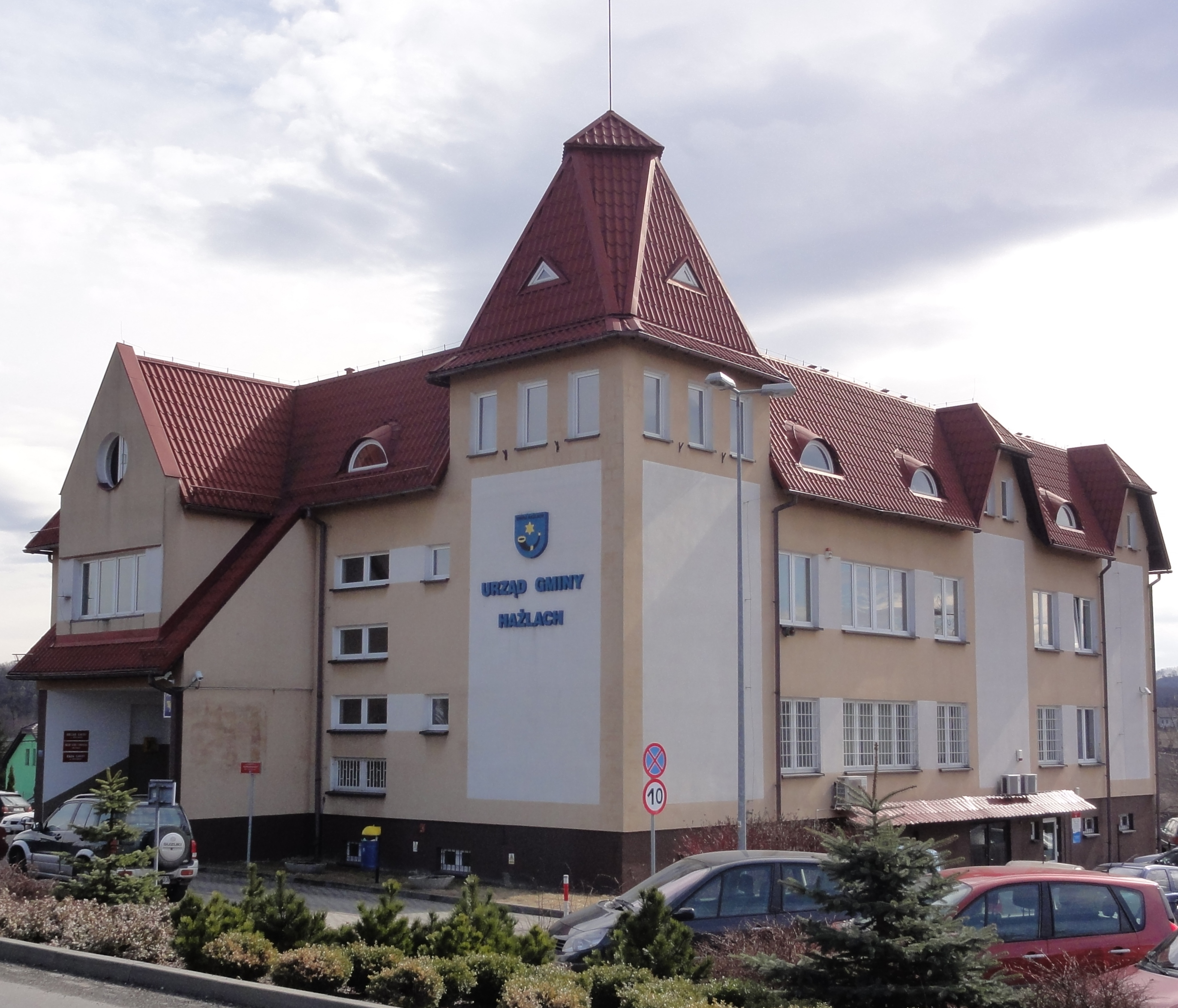 Municipal office of gmina Hażlach